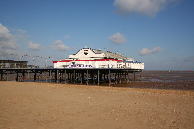 Cleethorpes Pier. Opened in 1873, a further extension to another pavilion further out to sea opened in 1888 but this was destroyed by fire in 1903. It is now a popular nightclub known as 'Pier 39'.